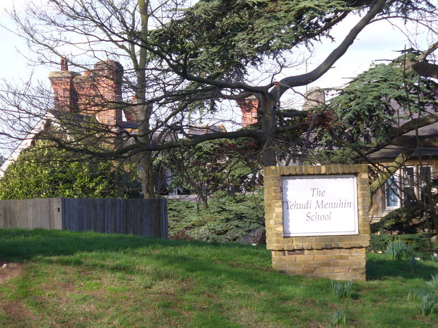 Yehudi Menuhin School School founded in 1963 by world renowned violinist, Yehudi Menuhin.